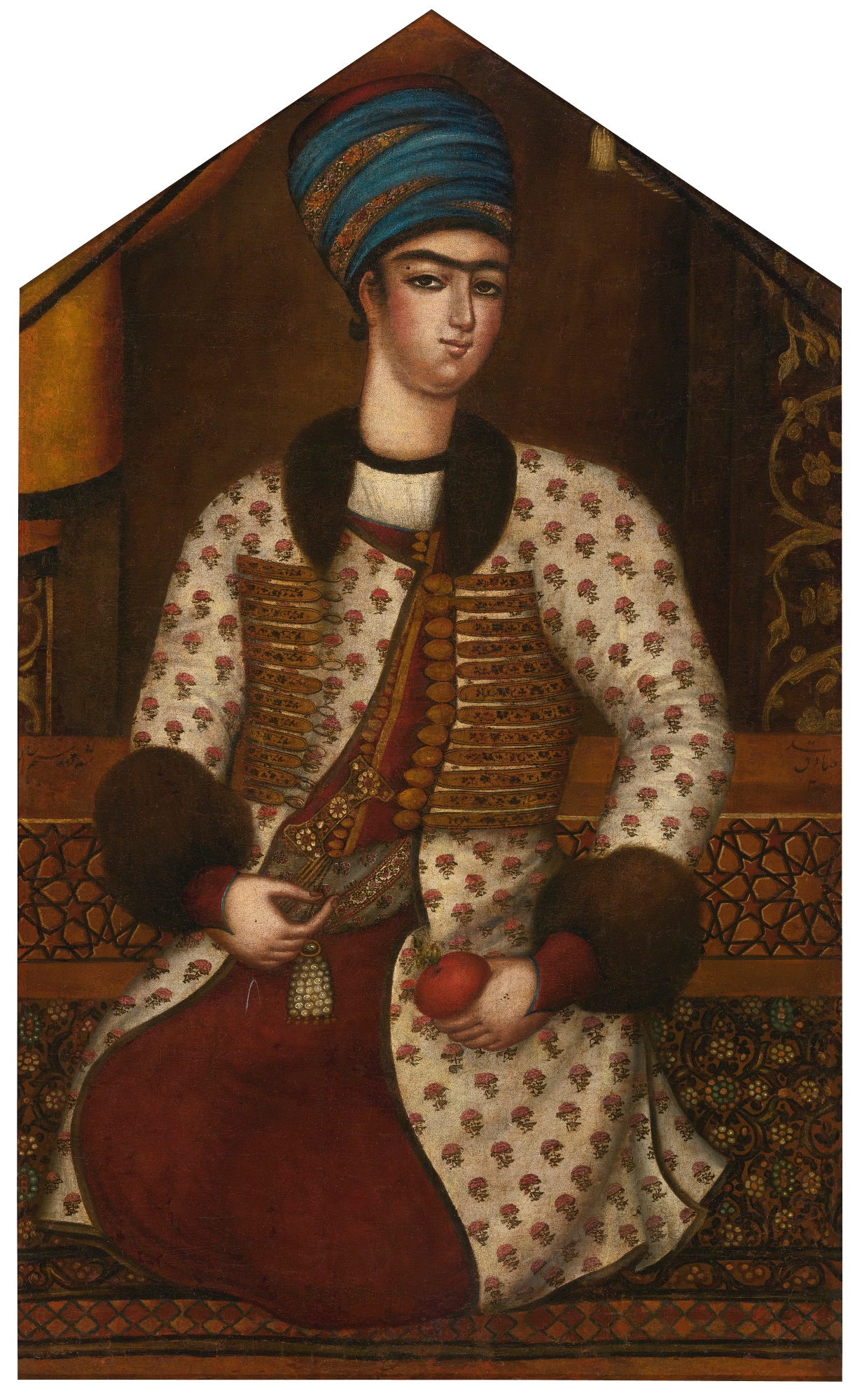 Portrait of Rustam Khan Zand, a minor Zand prince and grandson of Zaki Khan. Oil on canvas, framed 148 by 89cm. framed